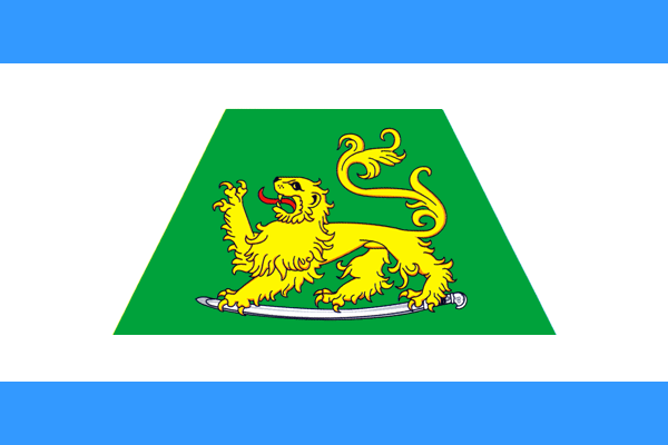 Flag of Seversky rayon, Krasnodar Territory, Russia